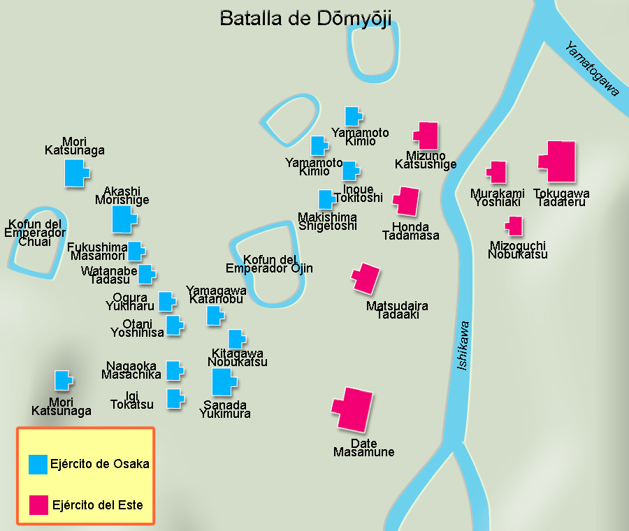 Image of the battle_of_Domyoji (2 of 2) the part of the siege of Osaka(without text version).